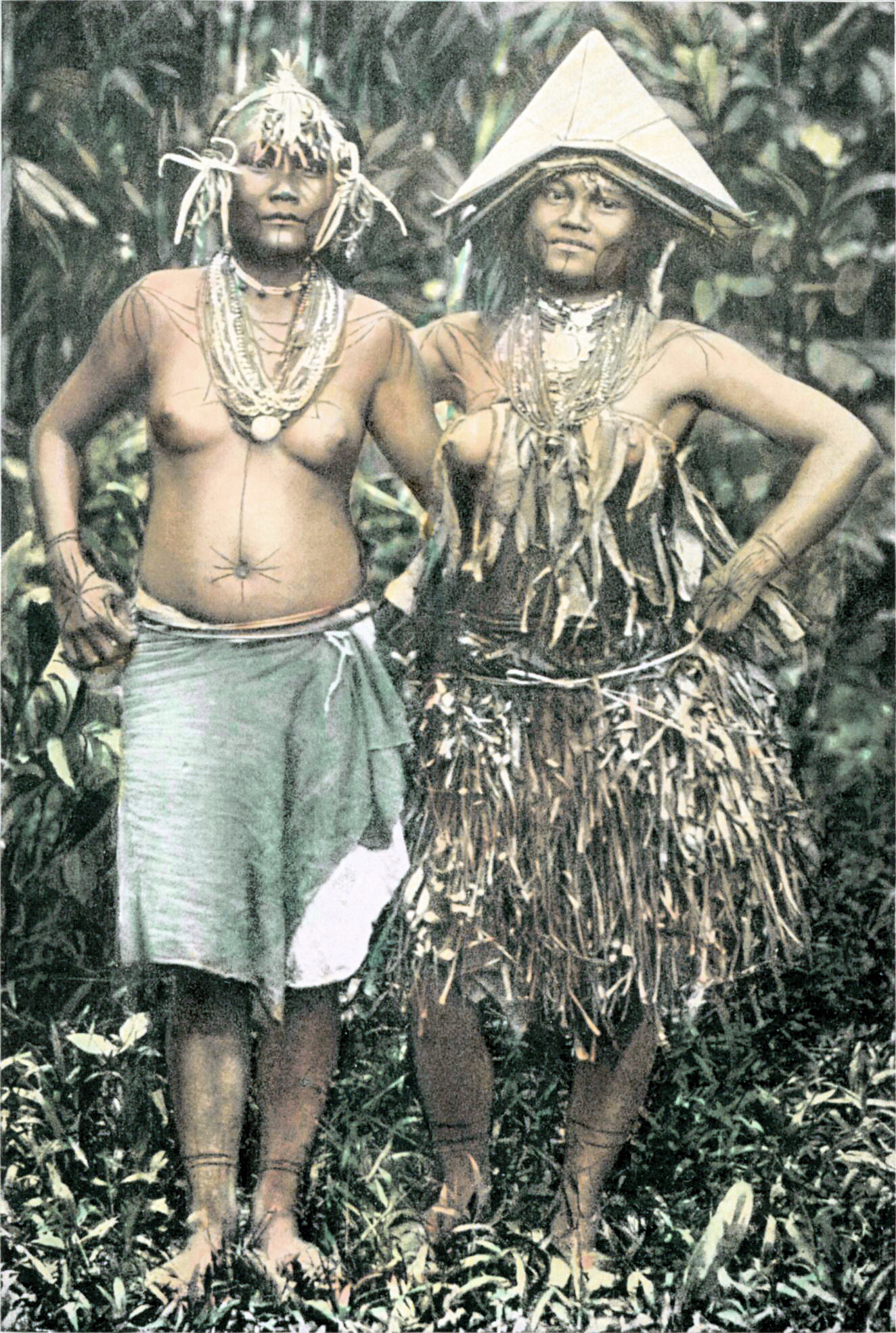 Women from Katorai village on Sibiru island (Mentawai group).